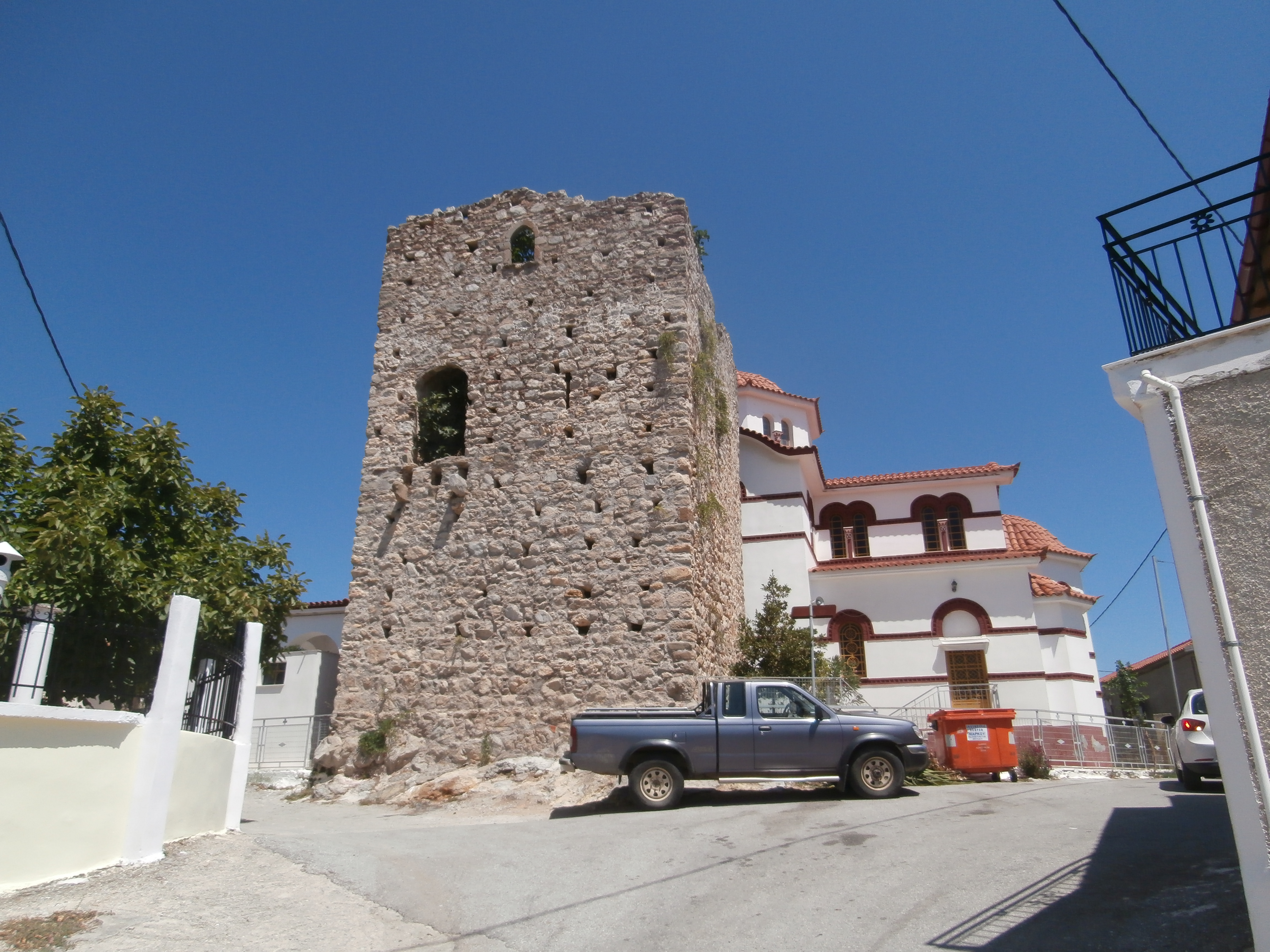 The medieval tower in Kadi and behind it a church.